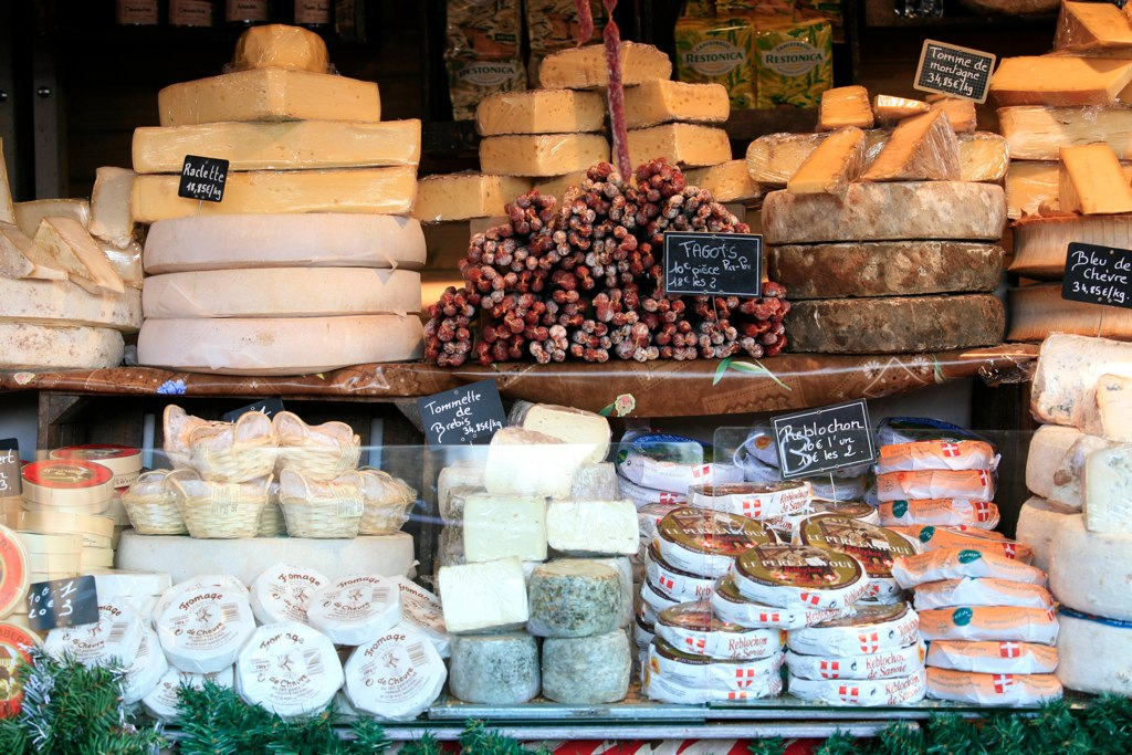 Cheese and Meats